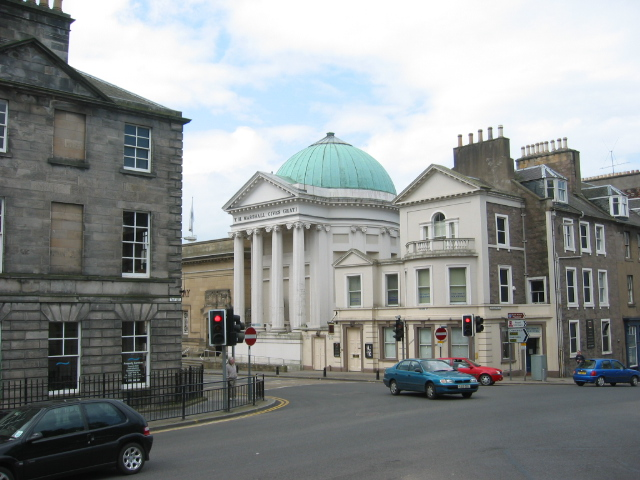 Museum and Art Gallery, Perth, Scotland. Photo taken by Dudesleeper on June 7, 2003.